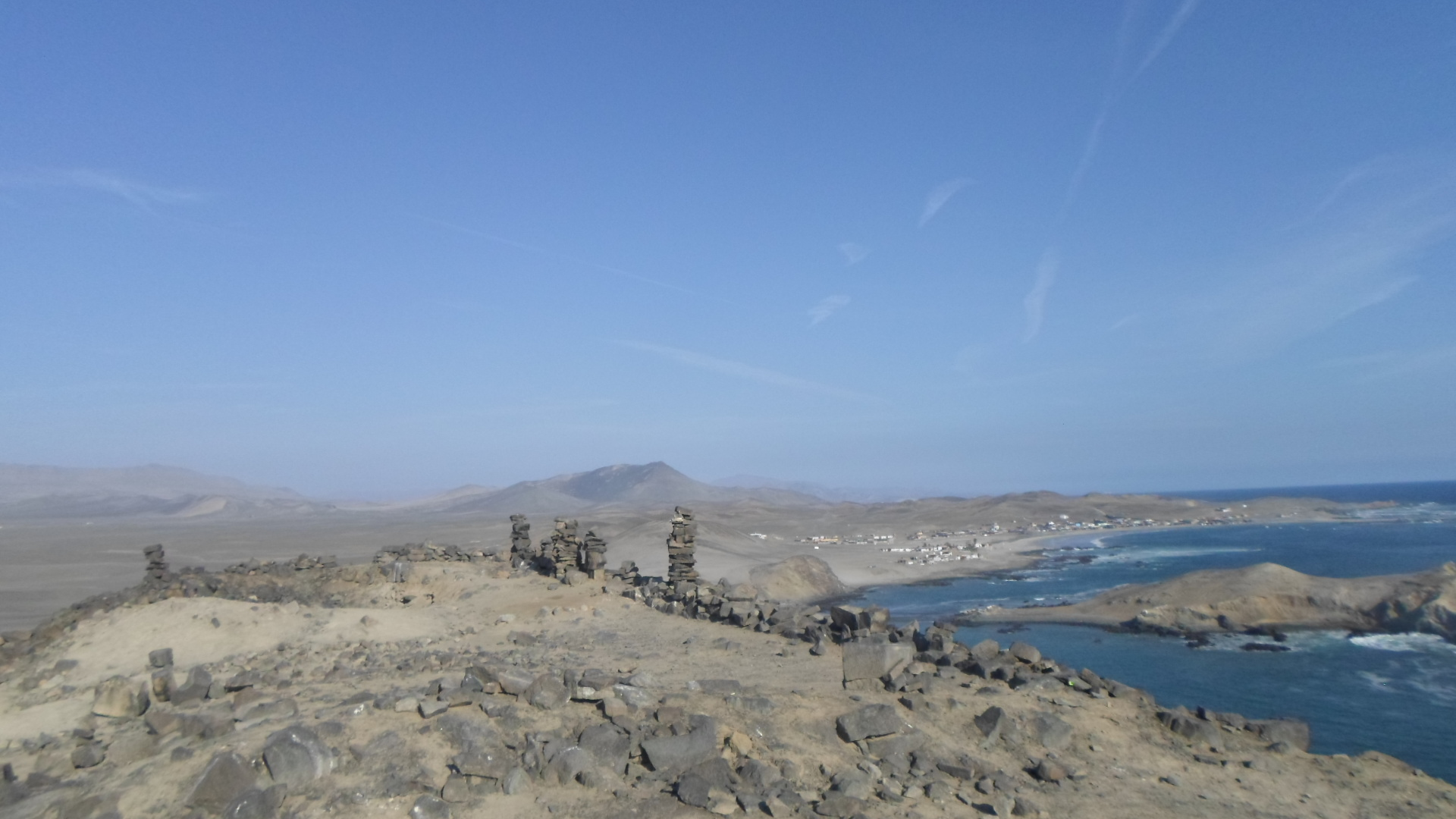 View from the top of the old building of Las Aldas, in the background La Caleta La Gramita, 2018.